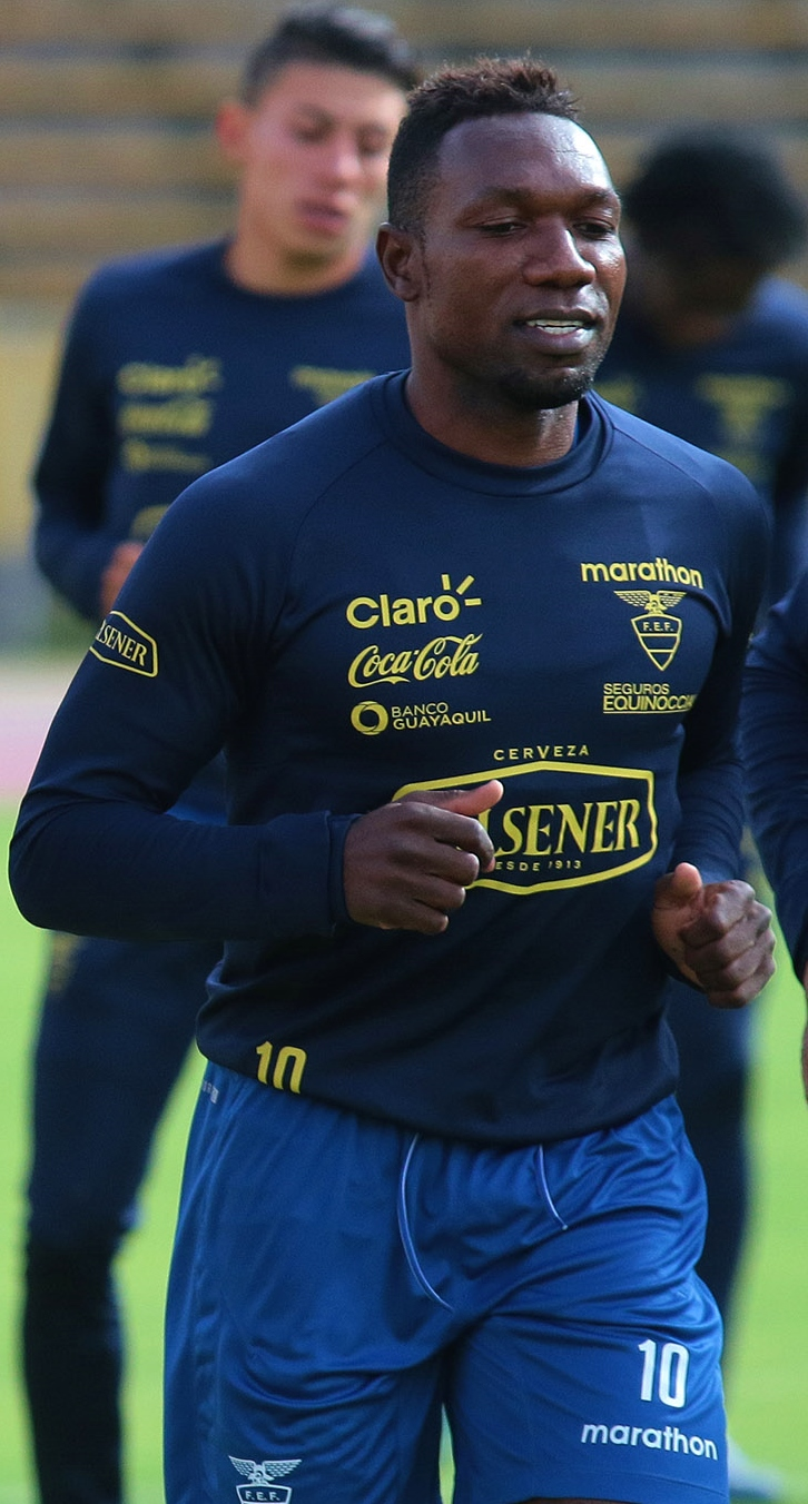 Walter Ayoví